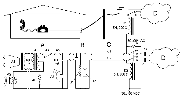 Telephone schematic for landline